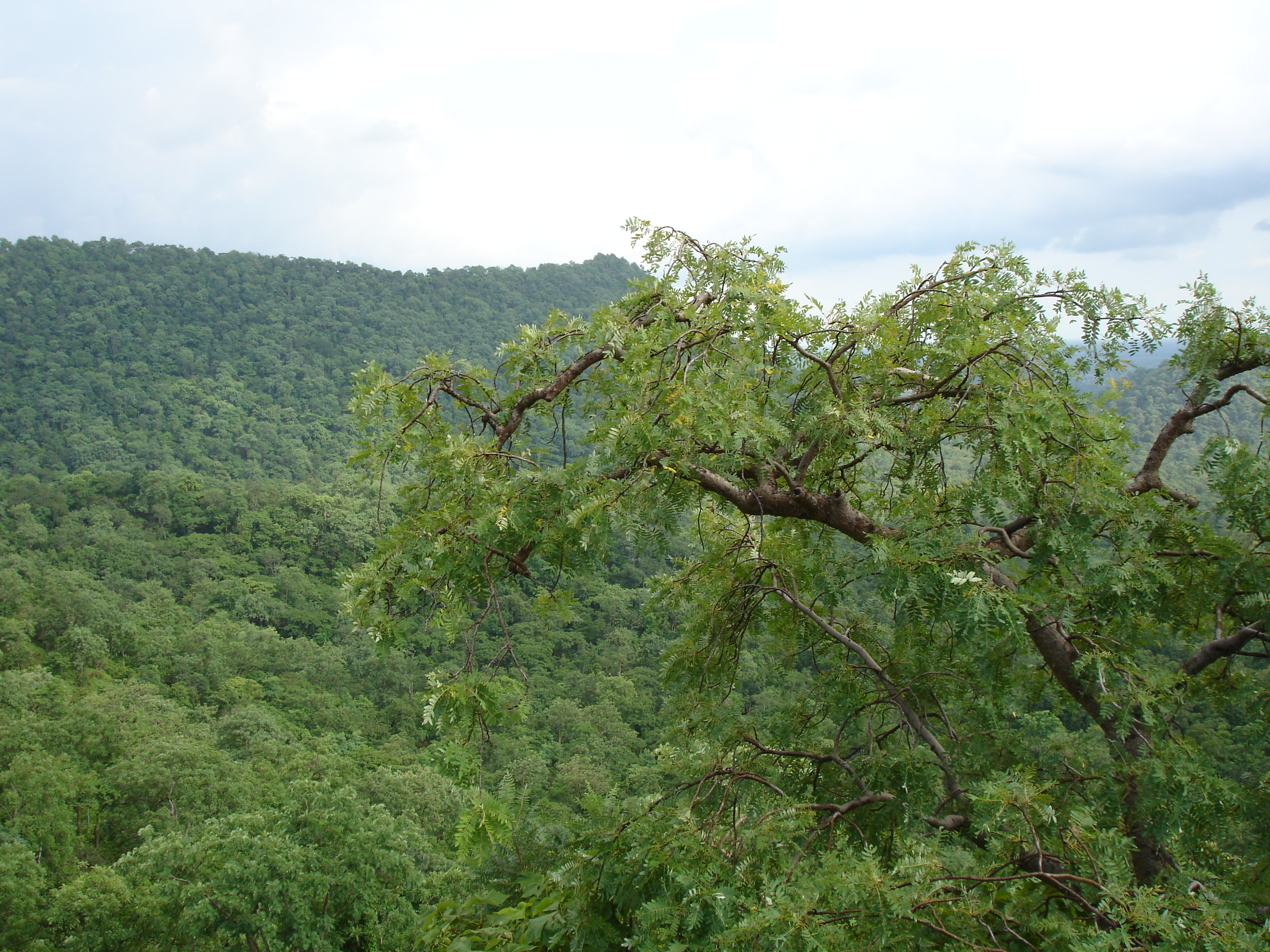 While documenting Medicinal Flora and Traditional Medicinal Knowledge about it in Kabirdham District of Chhattisgarh, India this picture was taken.